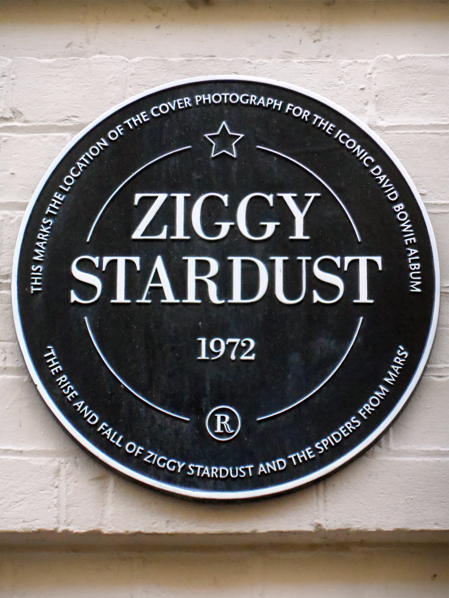 Black plaque erected in March 2012 by The Crown Estate at 23 Heddon Street, London W1B 4BQ